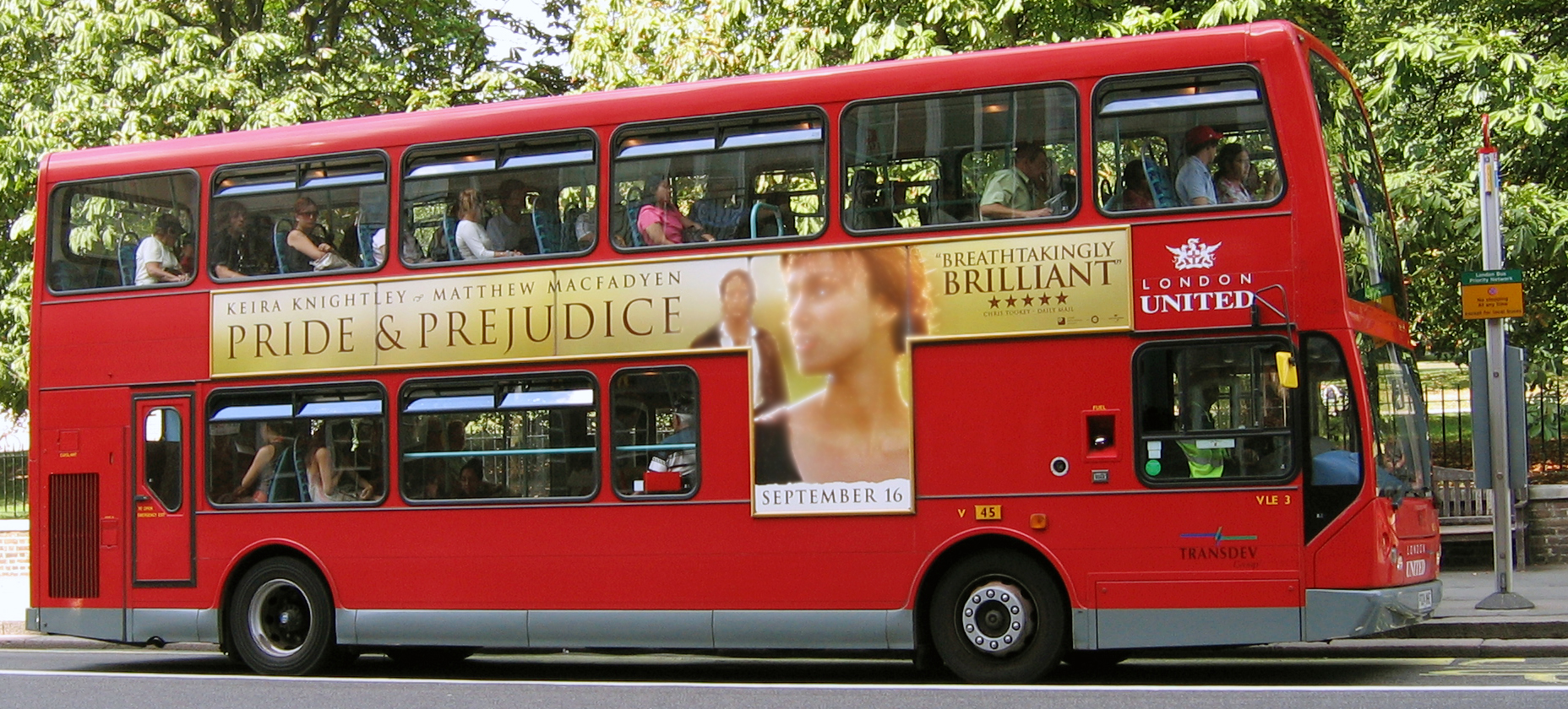 Transdev London United bus VLE3 (reg. PG04 WHE), a 2004 Volvo B7TL double-decker with East Lancs Myllennium Vyking bodywork, pictured at Stop RL (Royal Albert Hall) on Kensington Gore. In the background is Hyde Park. It's heading east, operating route 9 en route to Aldwych. The company took delivery of 55 such buses in 2004, numbered VE1-10 and VLE1-45. It carries advertising for Pride & Prejudice starring Keira Knightley.